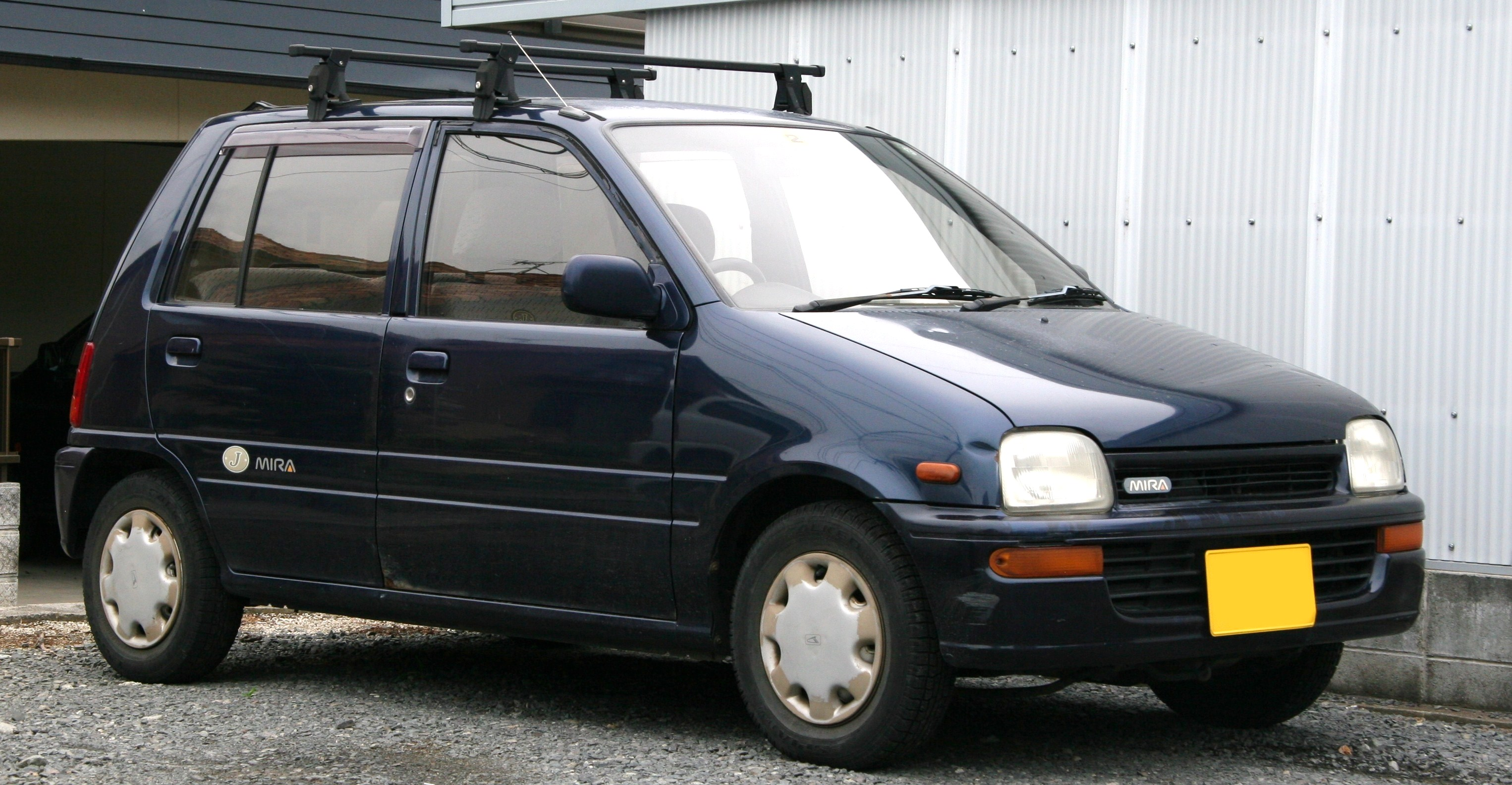 Daihatsu Mira